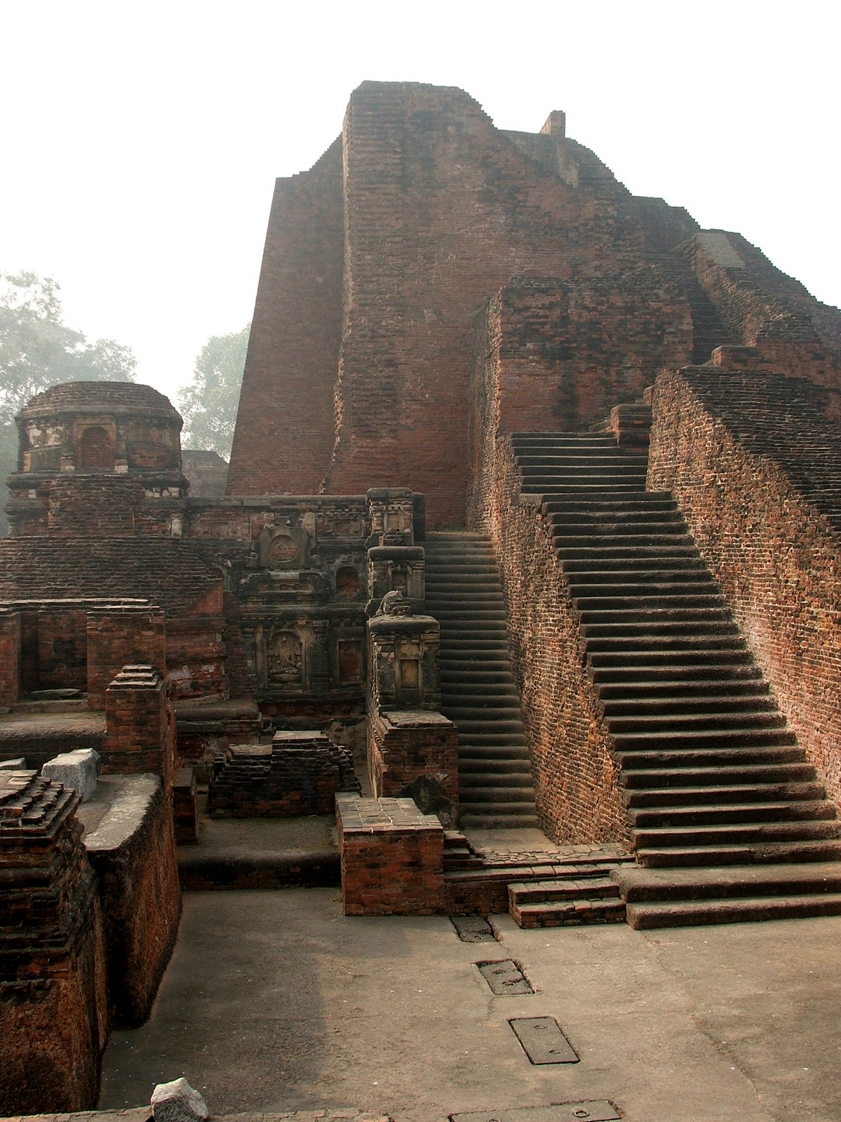 Main stupa of Sariputta in the ancient Nalanda University, Bihar, India.